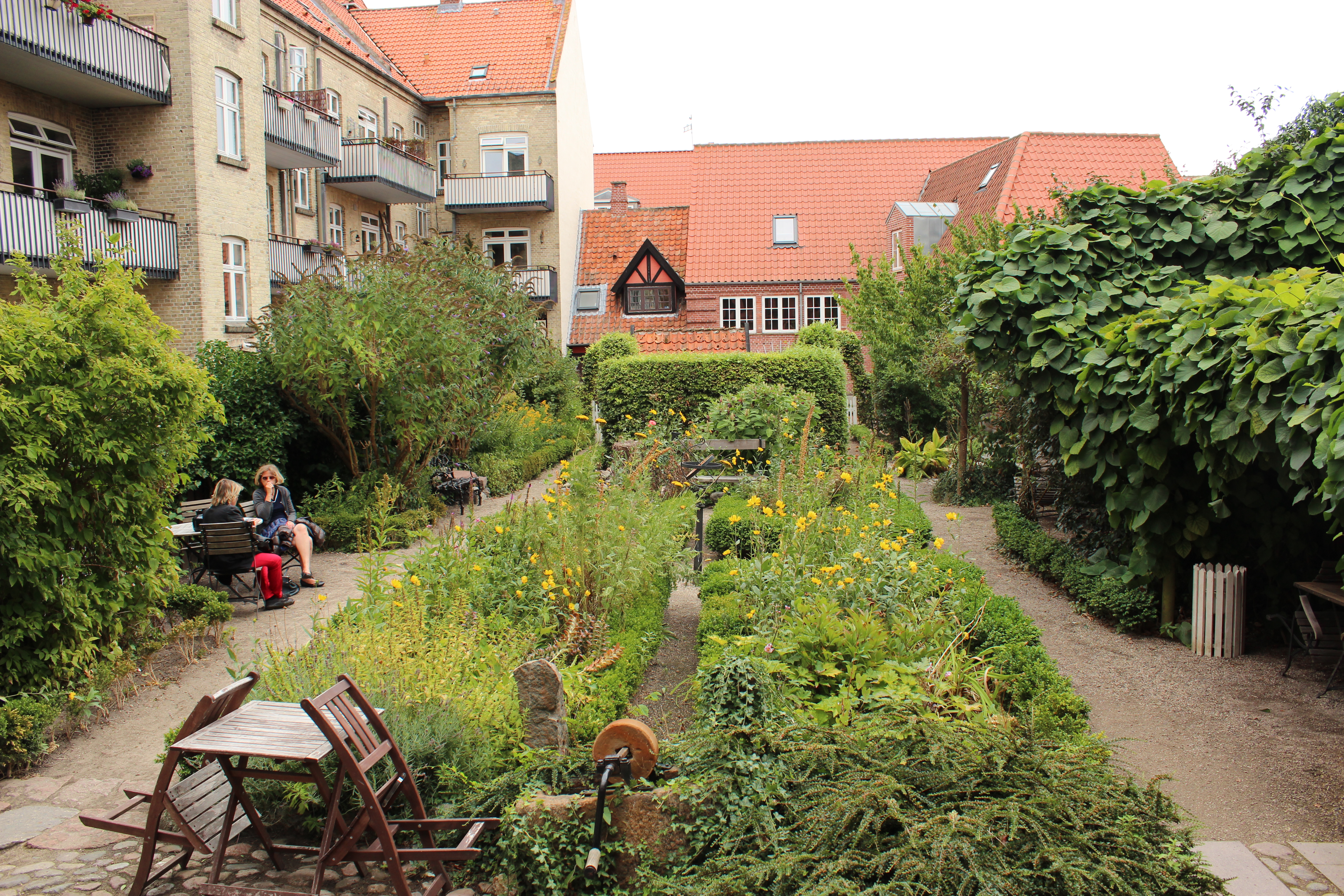 Courtyard/garden of Farvergården, Funen, Denmark